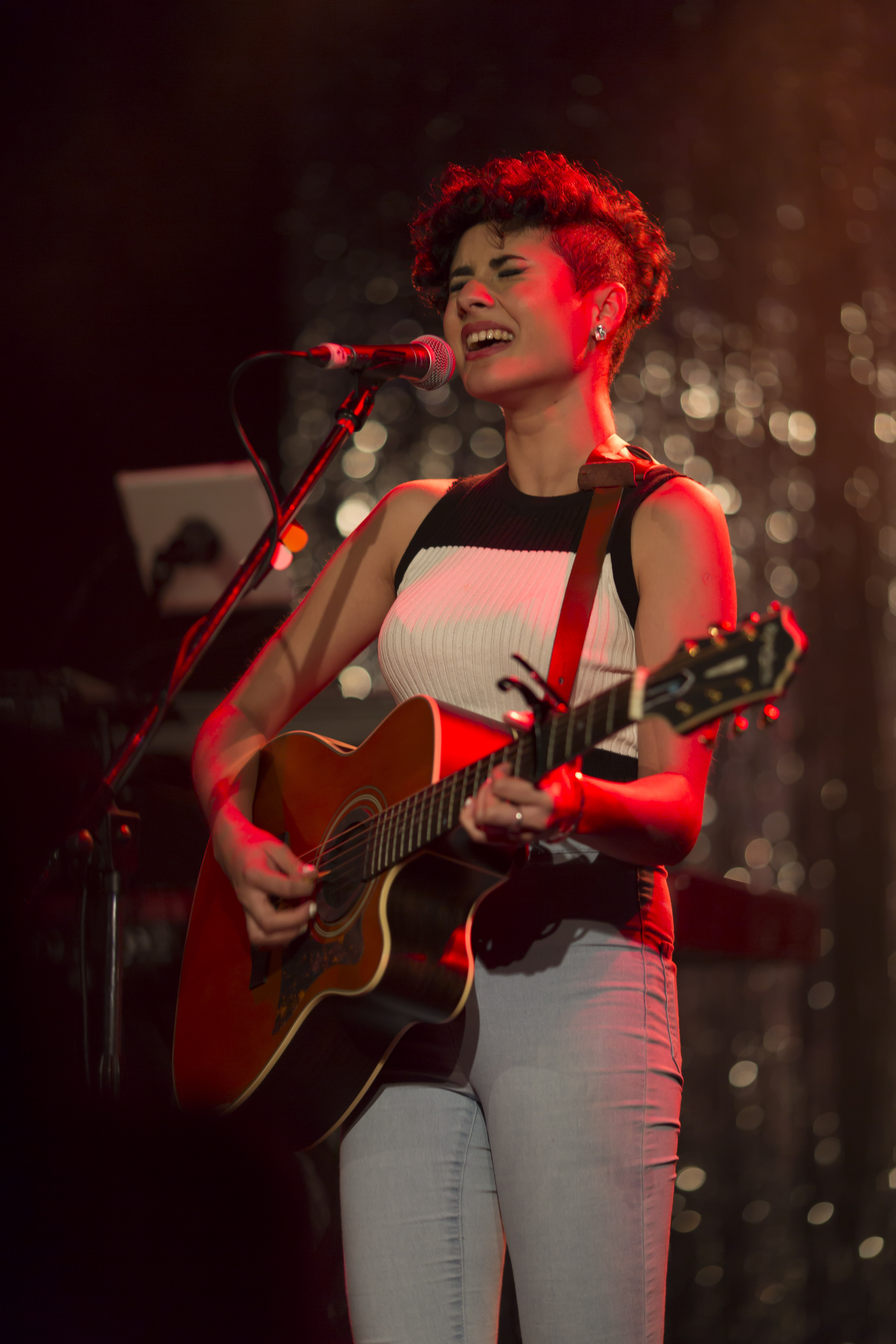 21st Feb 2015